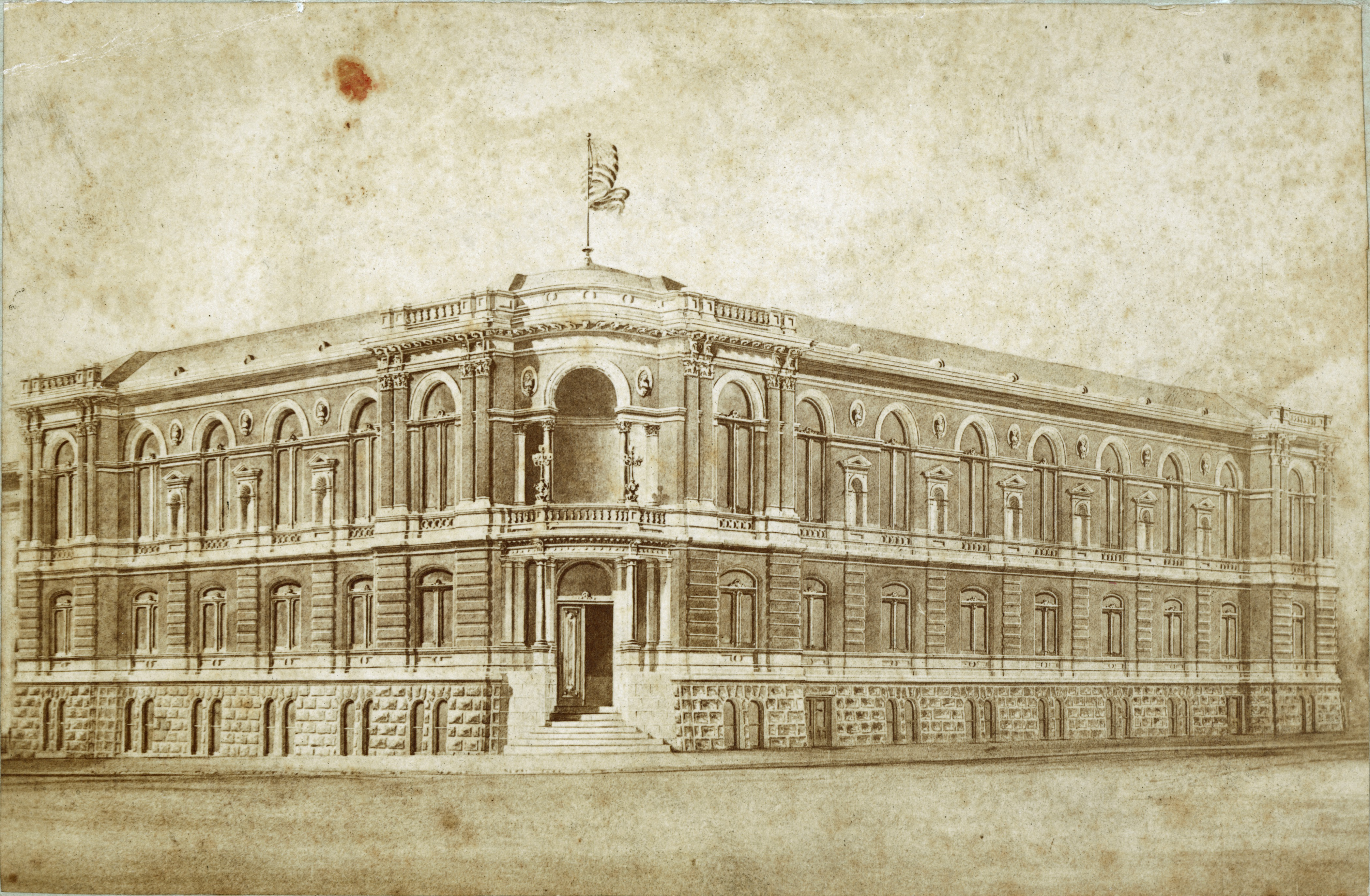 Liederkranz Hall. Photograph by Boehl and Koenig, no date Missouri History Museum Archives. Public Halls n10812 Unknown date, but Boehl and Koenig active from 1860s-1890s. The picture depicts Liederkranz Hall that was built ca. 1880 at Chouteau and 13th Street. A club building was built at South Grand and Magnolia ca. 1907.